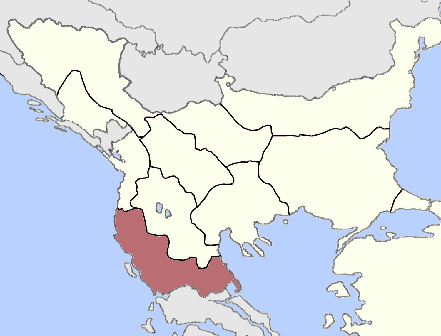 XY Vilayet, Ottoman Empire (1860s). Source: The Balkan Economies c.1800-1914: Evolution without Development at Google Books By Michael R. Palairet